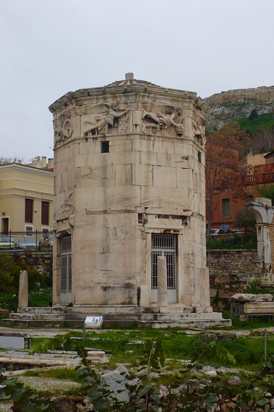 aerides